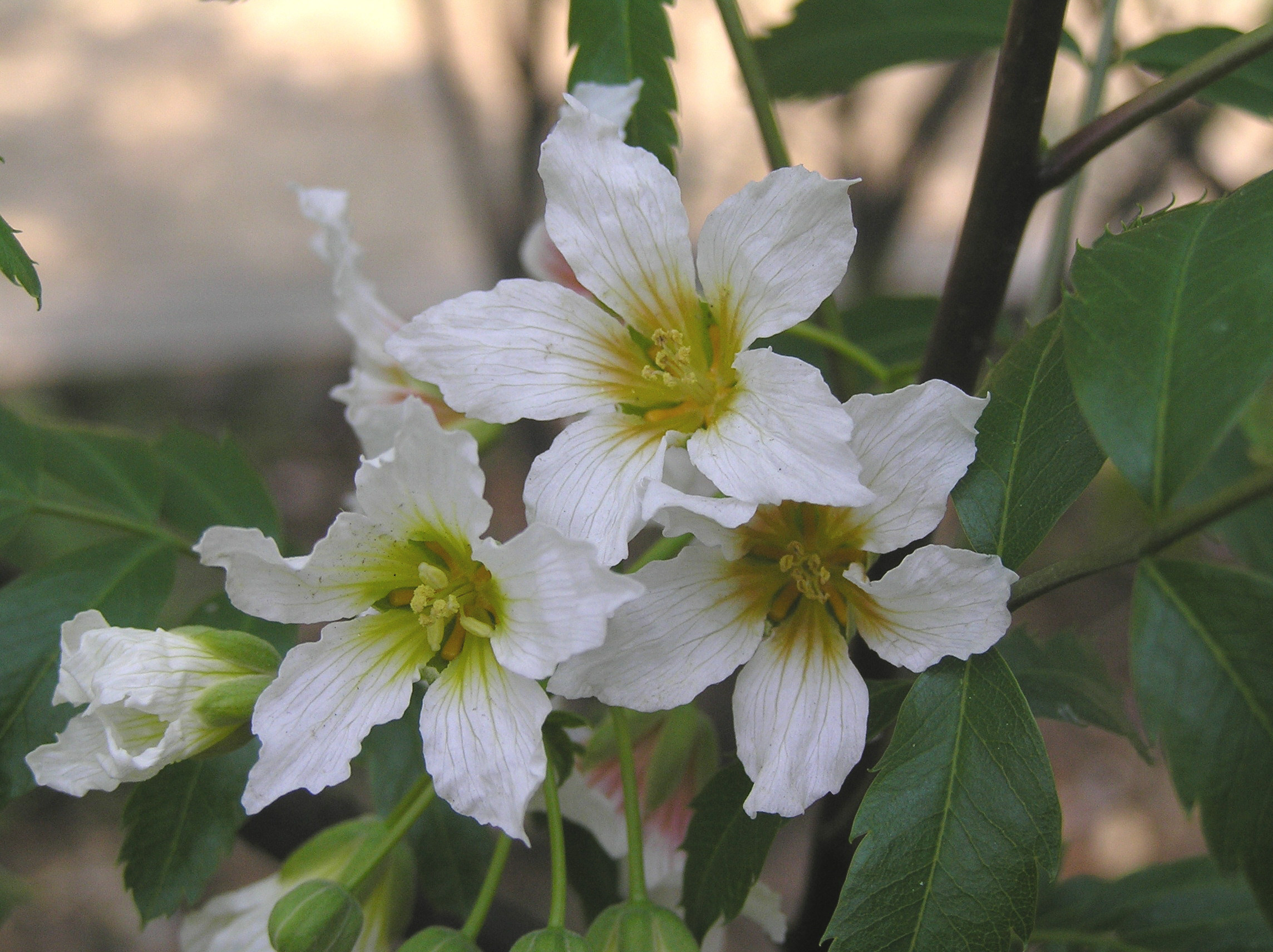 文冠果 Xanthoceras sorbifolia [濟南泉城公園 Jinan, China]